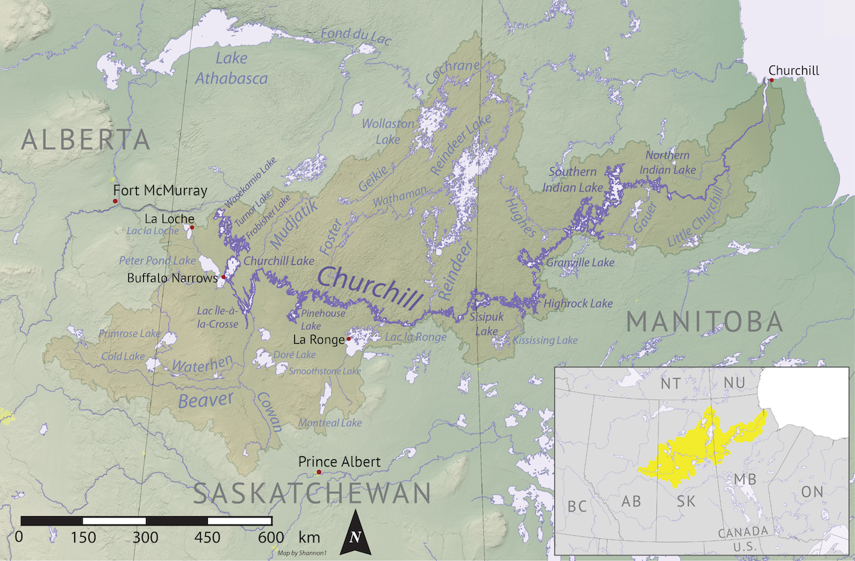 Map of the Churchill River (Hudson Bay) drainage basin. Data derived from NASA SRTM, Natural Resources Canada, US Geological Survey, Natural Earth, all public domain.